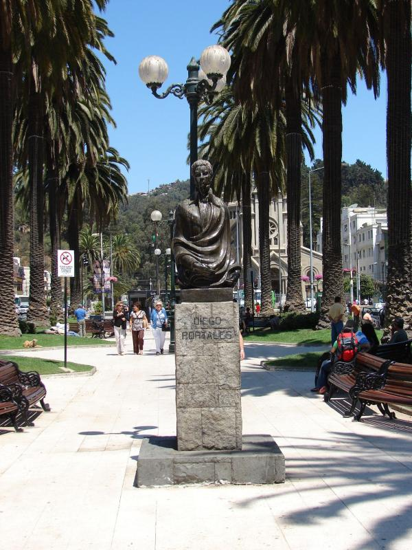 We returned south to Vina del Mar for a day trip. Like Zapallar is a spa and known for its beach life. The city grew out of a vinyard back then.